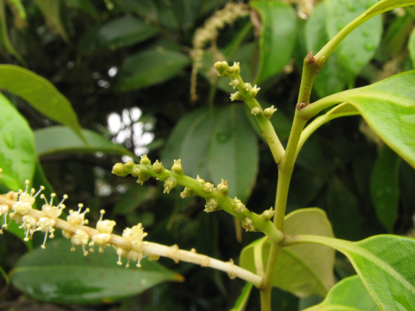 flower of Castanopsis sieboldii(female): スダジイの雌花